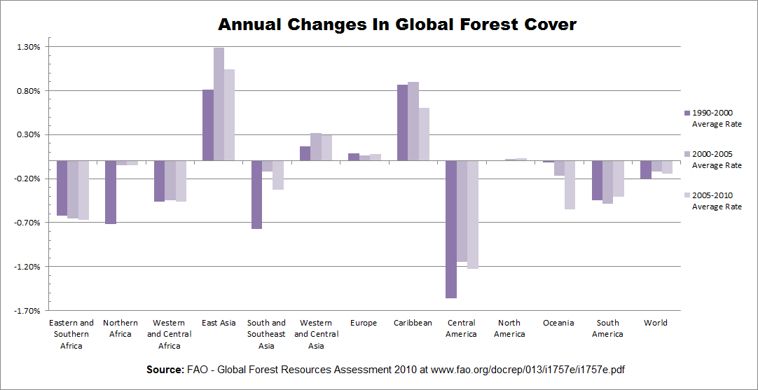 This graph shows annual changes in total forest cover for various regions and sub-regions of the world. The data is from the FAO's "Global Forest Resources Assessment 2010" report, which is available here. A graph with additional information from said report is here.